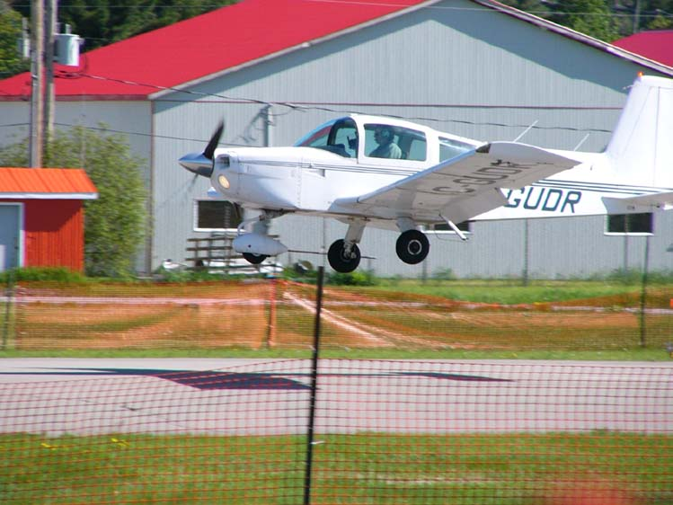 A Grumman American AA-5B Tiger (C-GUDR) lands at La Chute Airport, Quebec, 2004